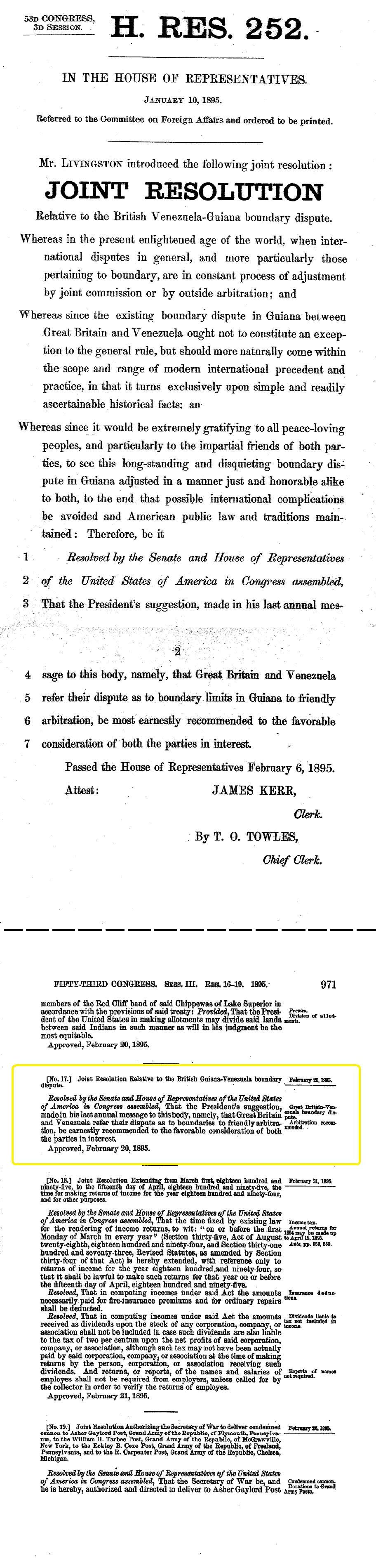 Georgia Congressman Leonidas Livingston of the 53rd Congress introduced House Resolution 252 urging Venezuela and Great Britain to settle their boundary dispute by arbitration on 10 January 1895. It was voted upon on 06 February 1895. President Grover Cleveland signed it into law on February 20 1895, after passing both Houses of Congress. The vote had been unanimous.